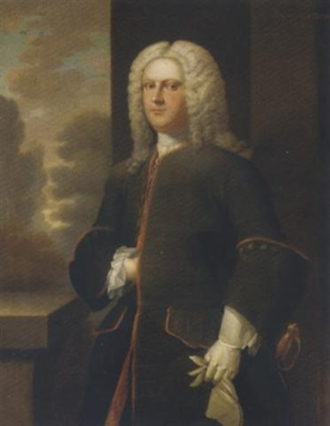 Portrait of Sir Cholmeley Dering, 4th Baronet (1679–1711), English politician.